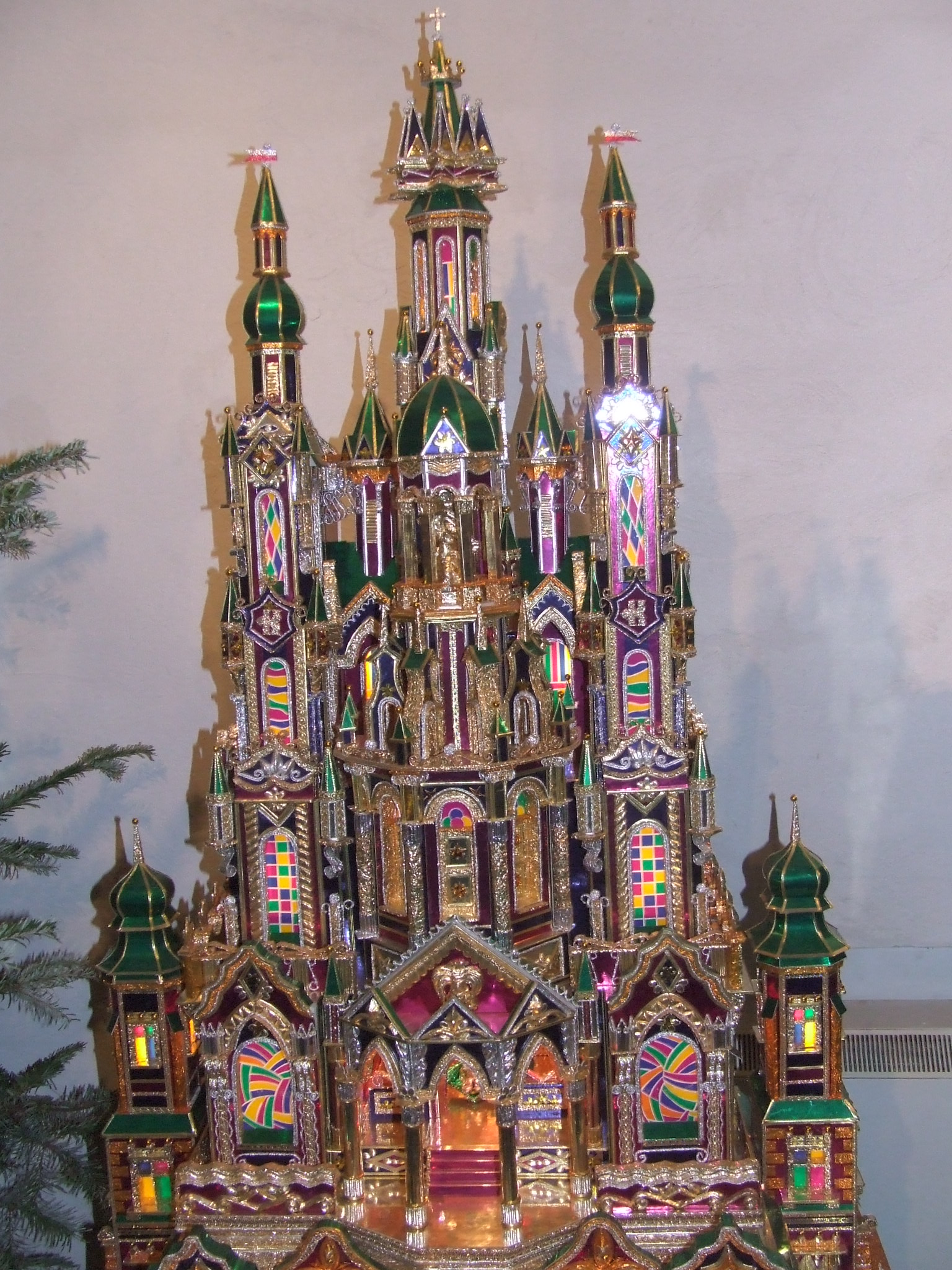 Cracow crib in museum Krzysztofory near Main Squere of Cracow